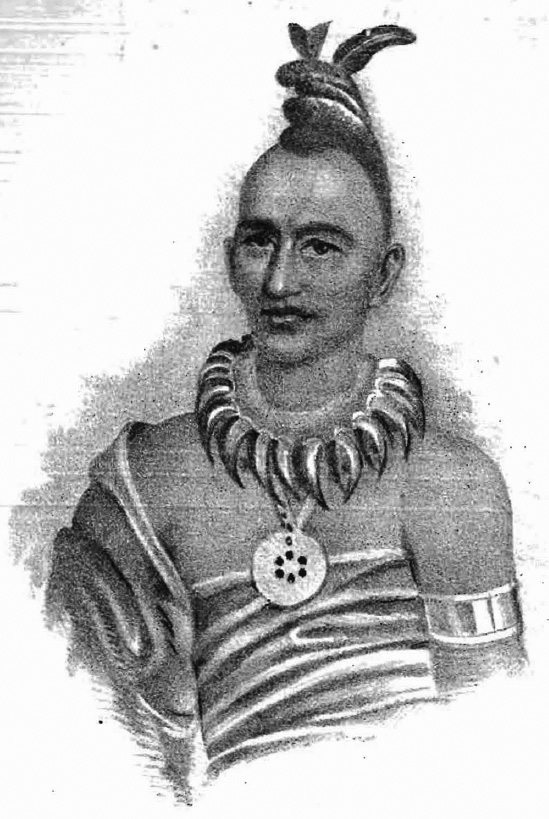 Taimah